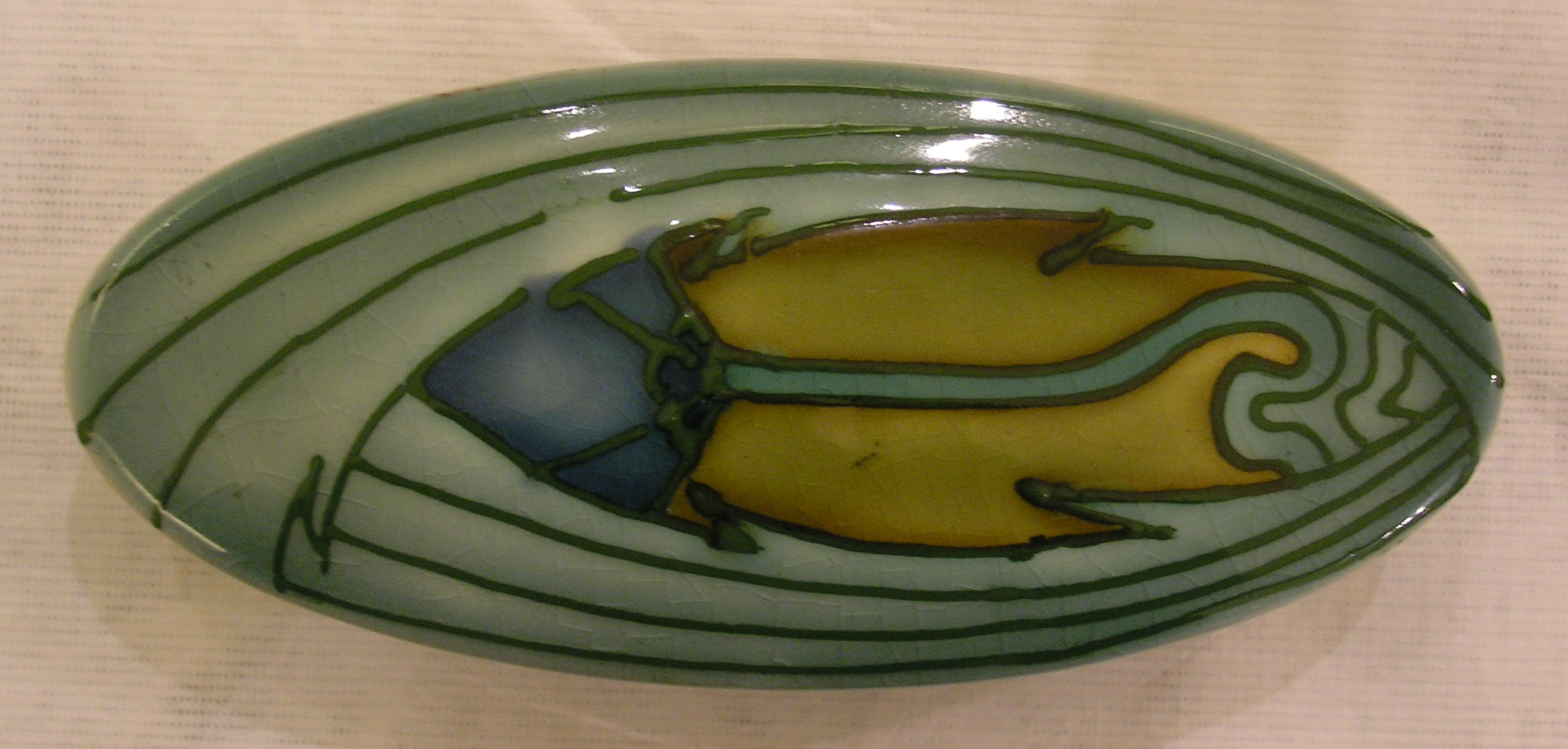 Box and cover, Secessionist ware. "A press-moulded earthenware "seccessionist ware" box of ovular form with slightly concave base, rising to gently tapered sides; with fitted gently domed cover of ovular form with raised collar and flat flange; the whole (outer) freely painted in ochre, blue and celadon coloured majolica glazes, with dark green slip-trailes linear patterning in an Art Nouveau style. See the exhib. Catalogue "Minton 1788-1910", aug-oct. 1976, V&A Museum, Thomas Goode and Company limited, London, 1976. E. Aslin and P. Atterbury (AIM LIB- NK4085)